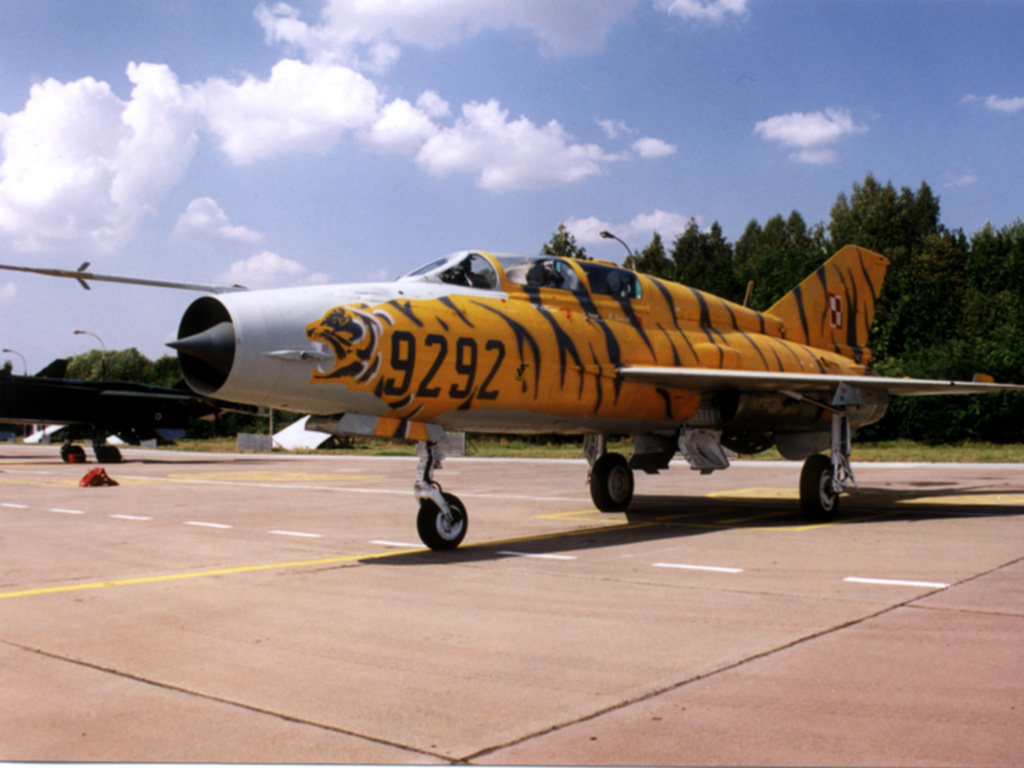 A MiG-21UM Mongol-B trainer aircraft at Rodom air show 2002.